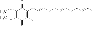 oxidated form of ubiquinone (coenzyme q)